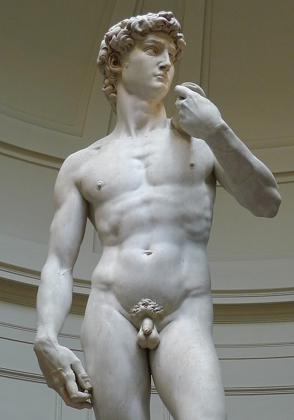 Michelangelo's David, 1501-1504, Galleria dell'Accademia (Florence)